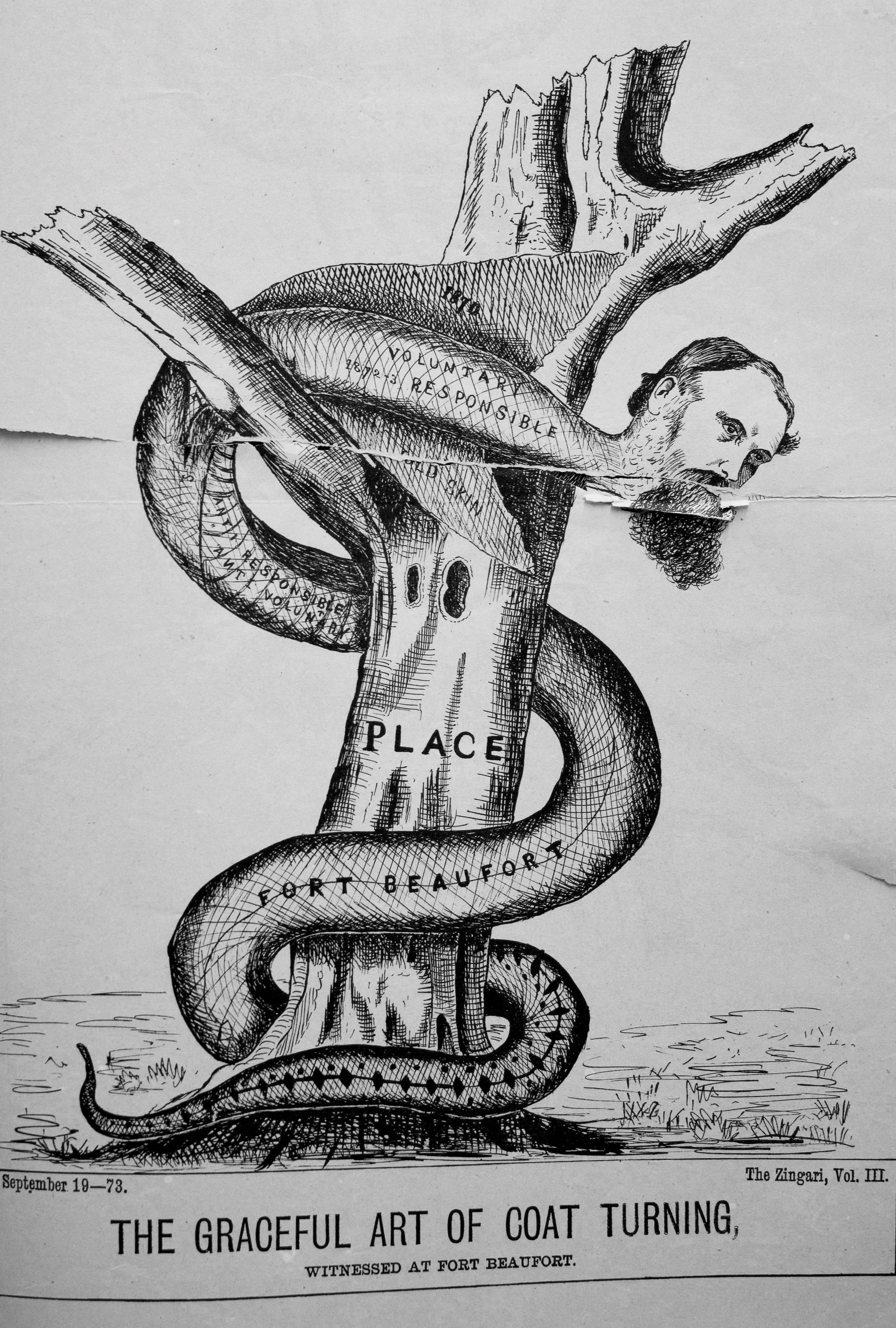 Cartoon in the reactionary Zingari newspaper attacking John Quin, the MP for Fort Beaufort, for joining the Responsible Government movement of PM John Molteno, and for supporting his "7 Circles Bill" after initially opposing it. In the aftermath of the Bill he sheds his old skin to become supportive of Responsible Government (local democracy) and Voluntarism (a secular state)